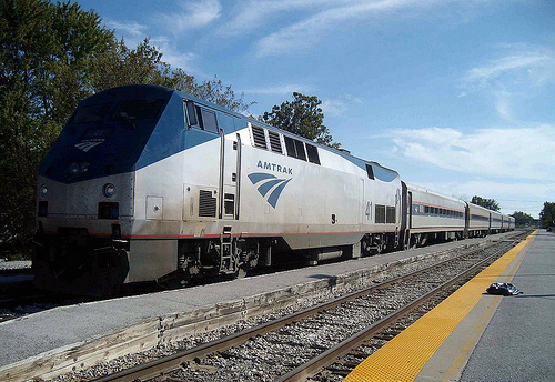 Amtrak Illini at Carbondale, Illinois